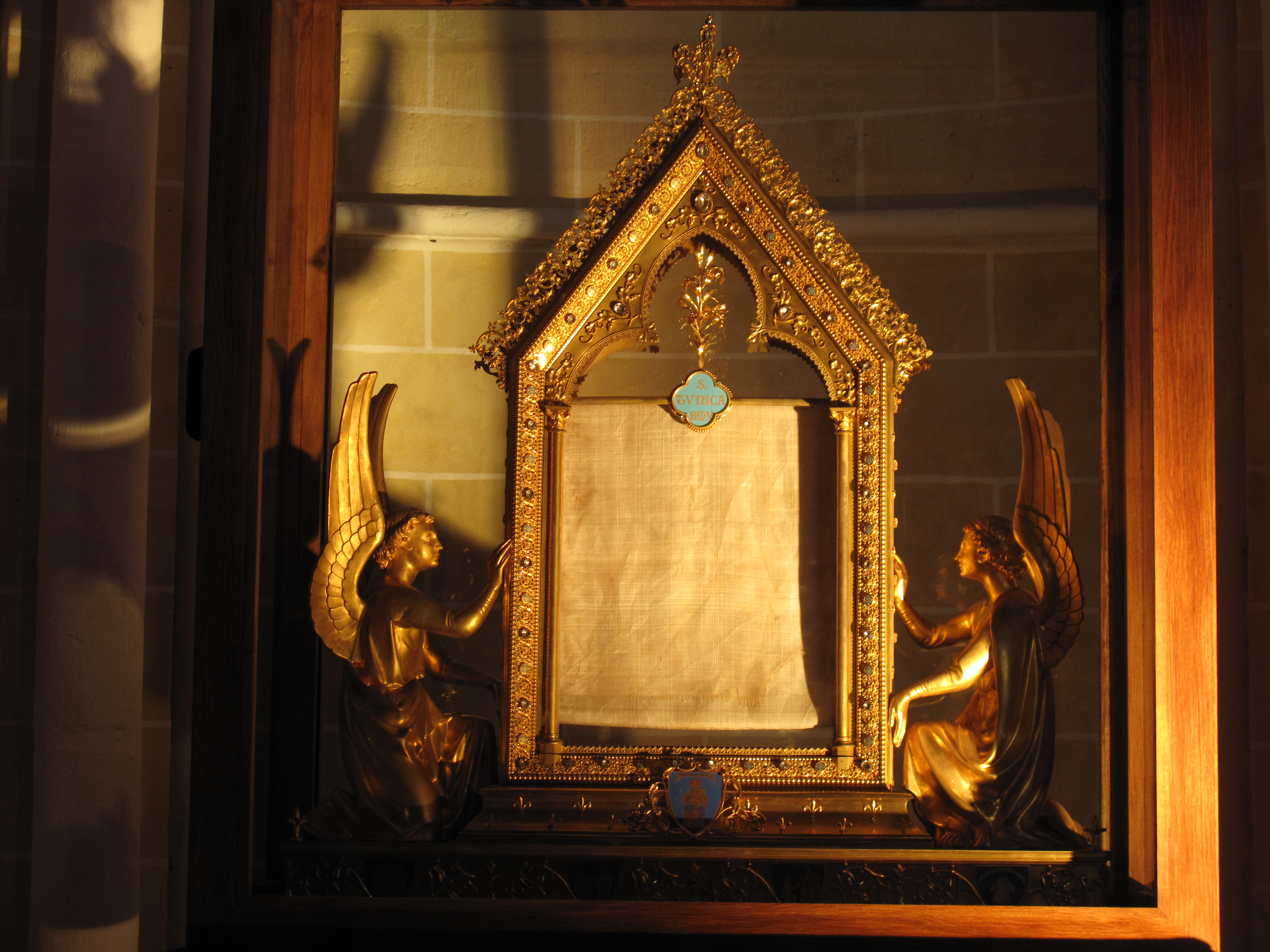 Chartres Cathedral